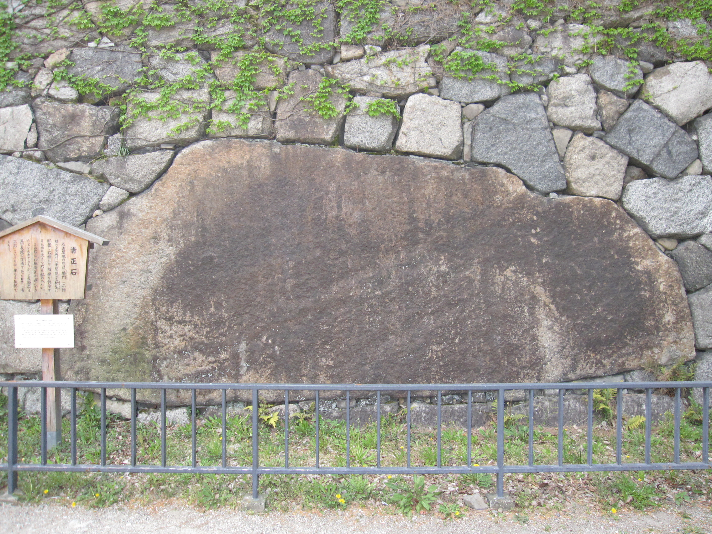 Kiyomasa's Stone at Nagoya Castle.